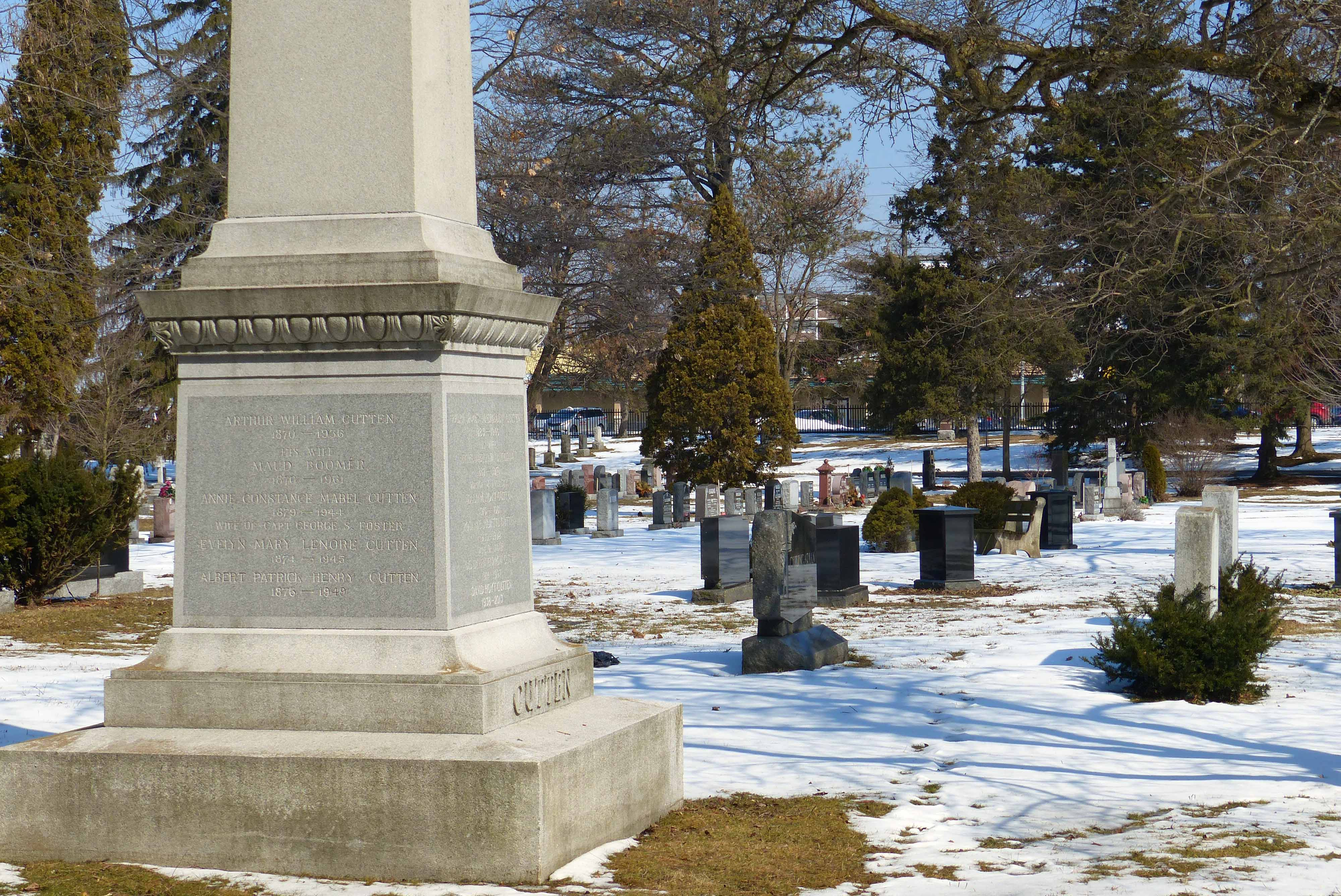 The base of the Cutten monument in Woodlawn Memorial Park in Guelph, Ontario, Canada. The inscription for A. W. Cutten is at the top of the inscriptions.